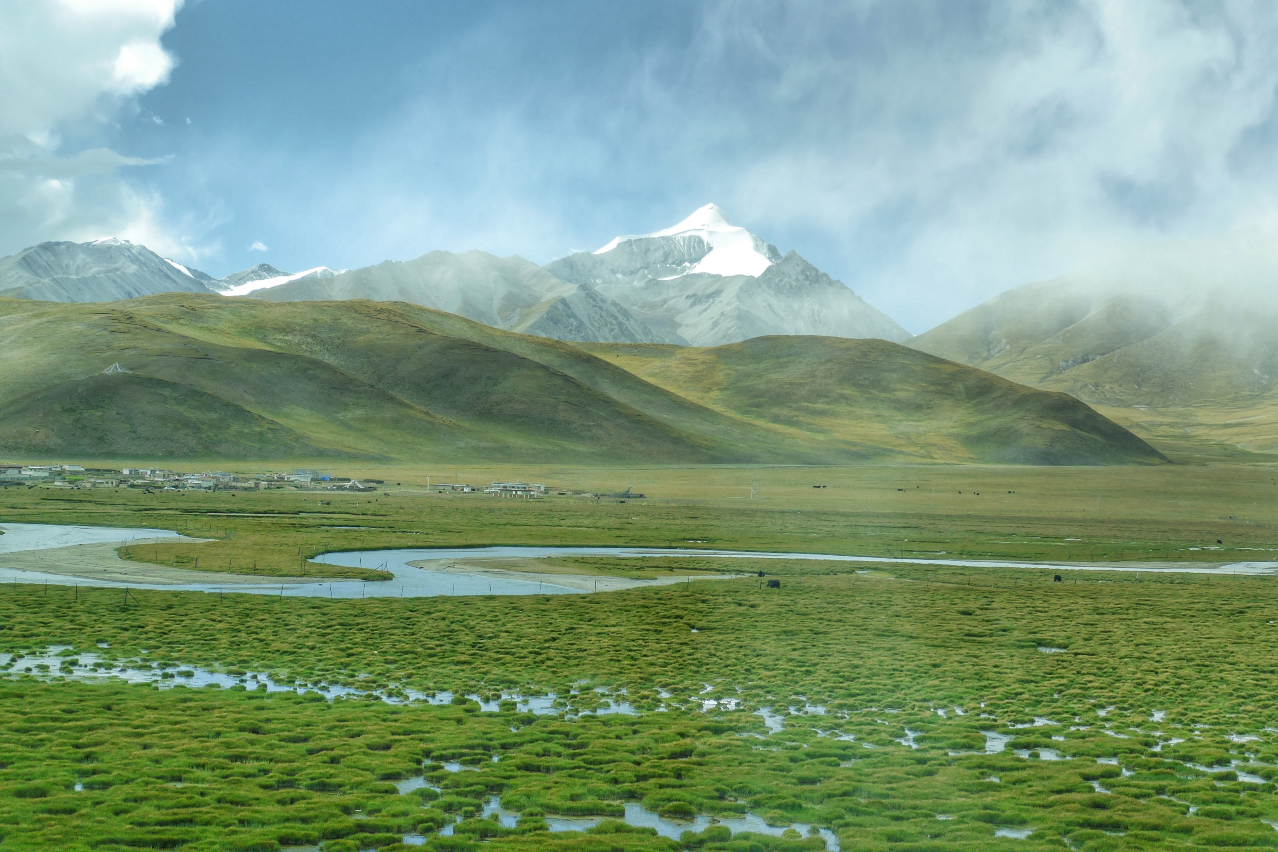 Amazing scenery along the 22-hour train ride from Lhasa to Qinghai